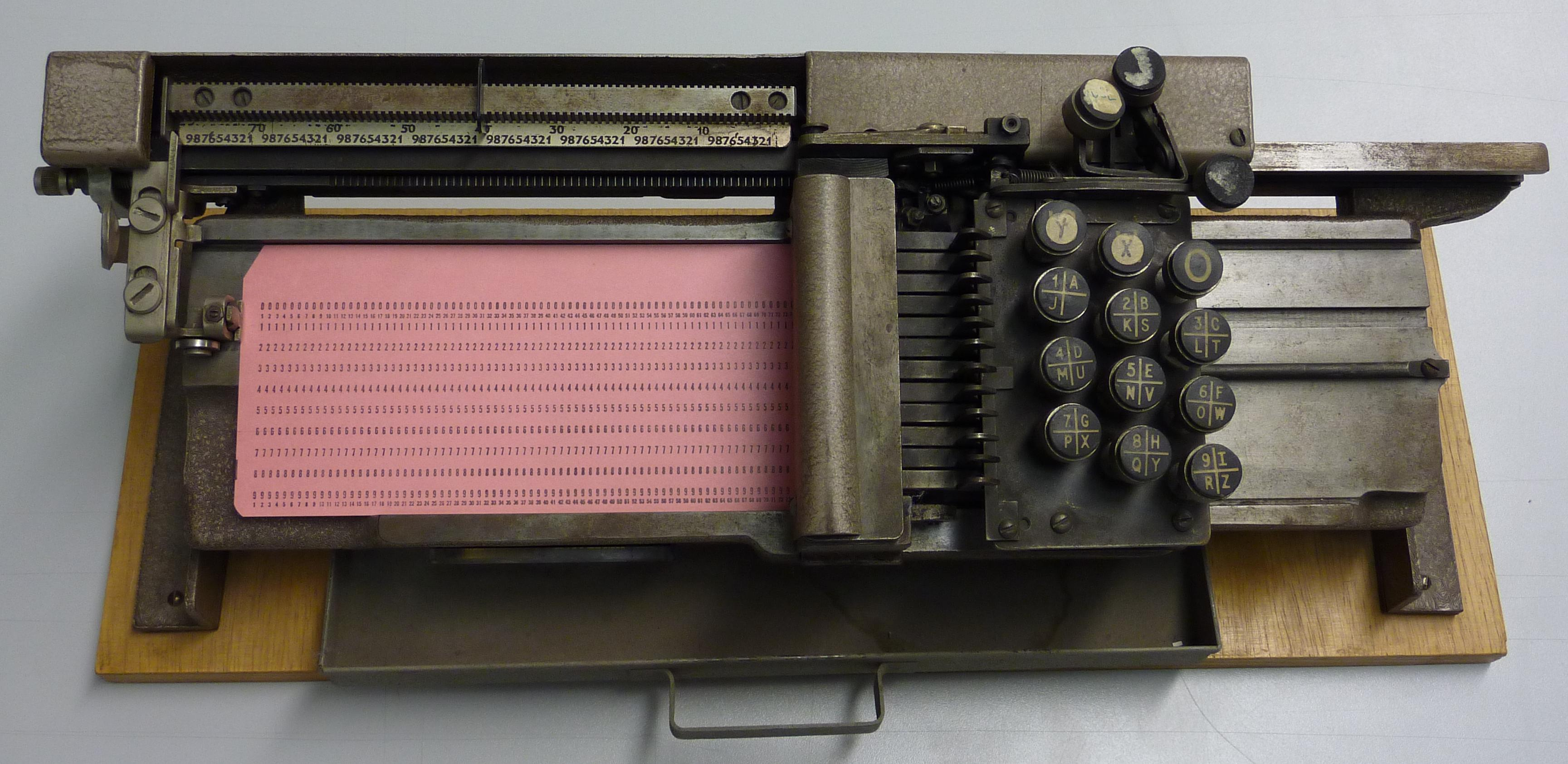 hand-operated card punch (manufacturer: ICT)